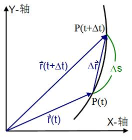 curvilinear position Vs of time